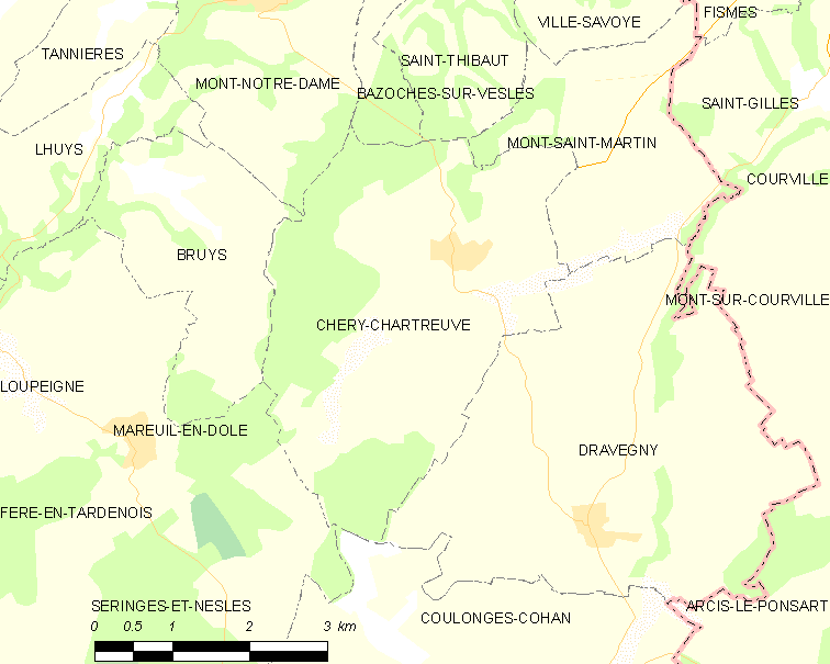 Map of French commune: Chéry-Chartreuve Map commune FR insee code 02179.png